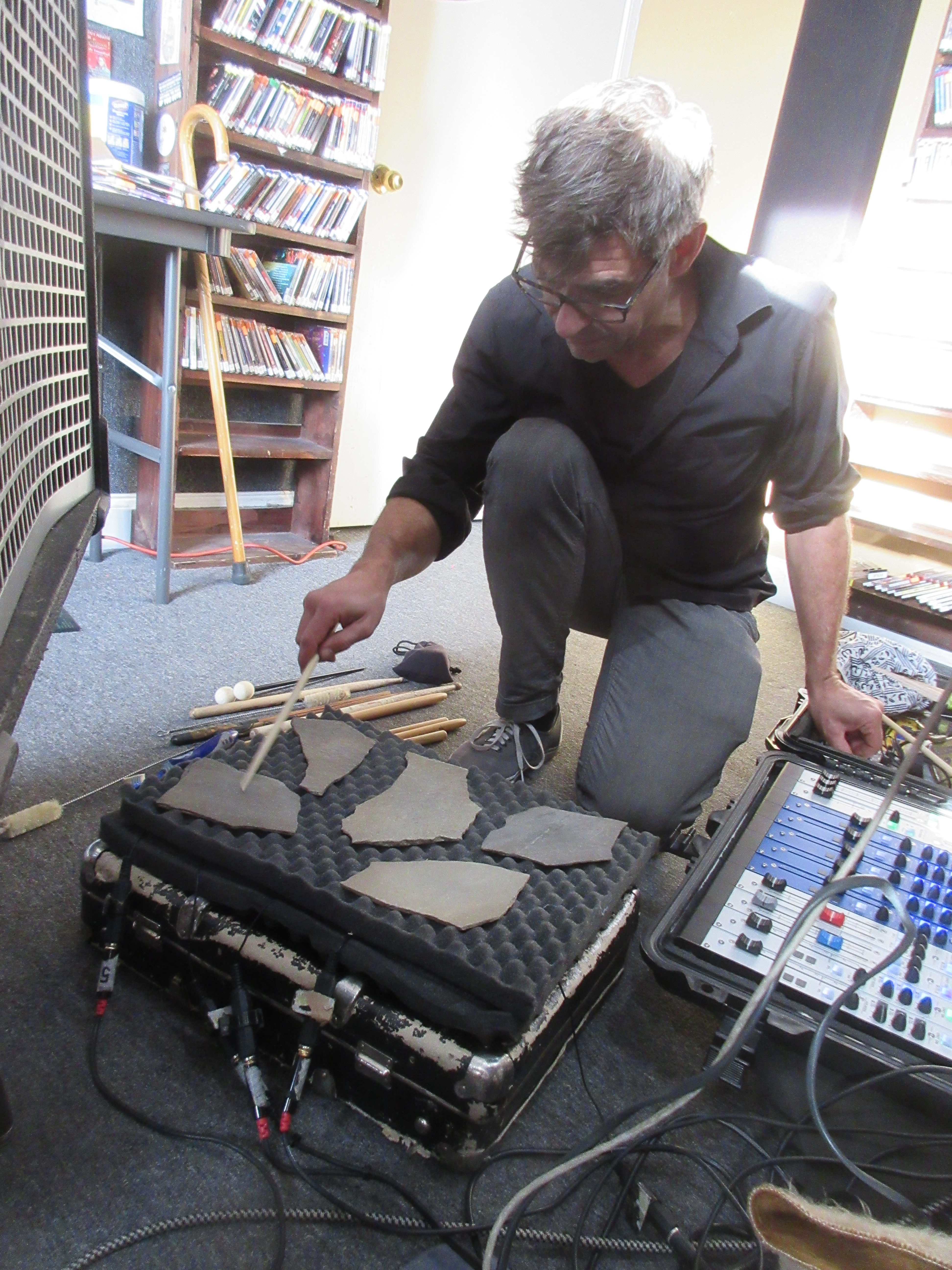 Drummer/experimental musician Simon Berz at WWOZ radio studio in the French Quarter of New Orleans. Berz played stones - his own set-up of selected flat stones with electric pickups, which he struck, rubbed, and scratched, while adjusting the electric pickups. Photo by Infrogmation of New Orleans, 17 December 2018. Free reuse with author attribution in accordance with any of the licenses listed by the author/photographer. Reuse without photo attribution is a violation of copyright.